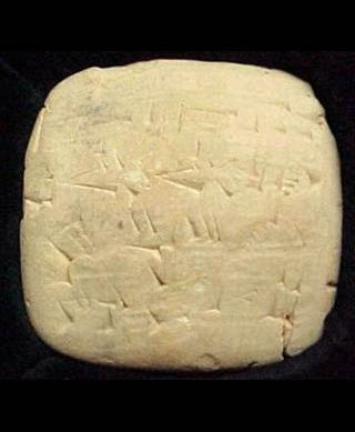 Sumerian tablet created during the 45th year of the reign of Shulgi, the King of Ur, in 2050 BC. It is a dated and signed receipt written by a scribe called Ur-Amma for the delivery of beer, by a brewer named Alulu. The text translates as "Ur-Amma acknowledges receiving from his brewer, Alulu, 5 sila (about 4 1/2 liters) of the 'best' beer."